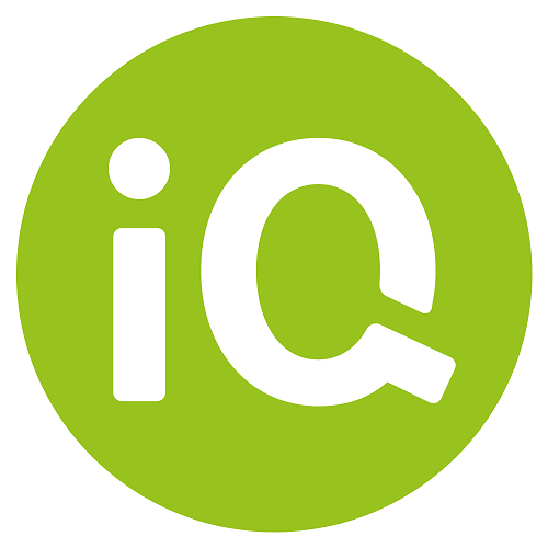 This is the logo for iQ Student Accommodation